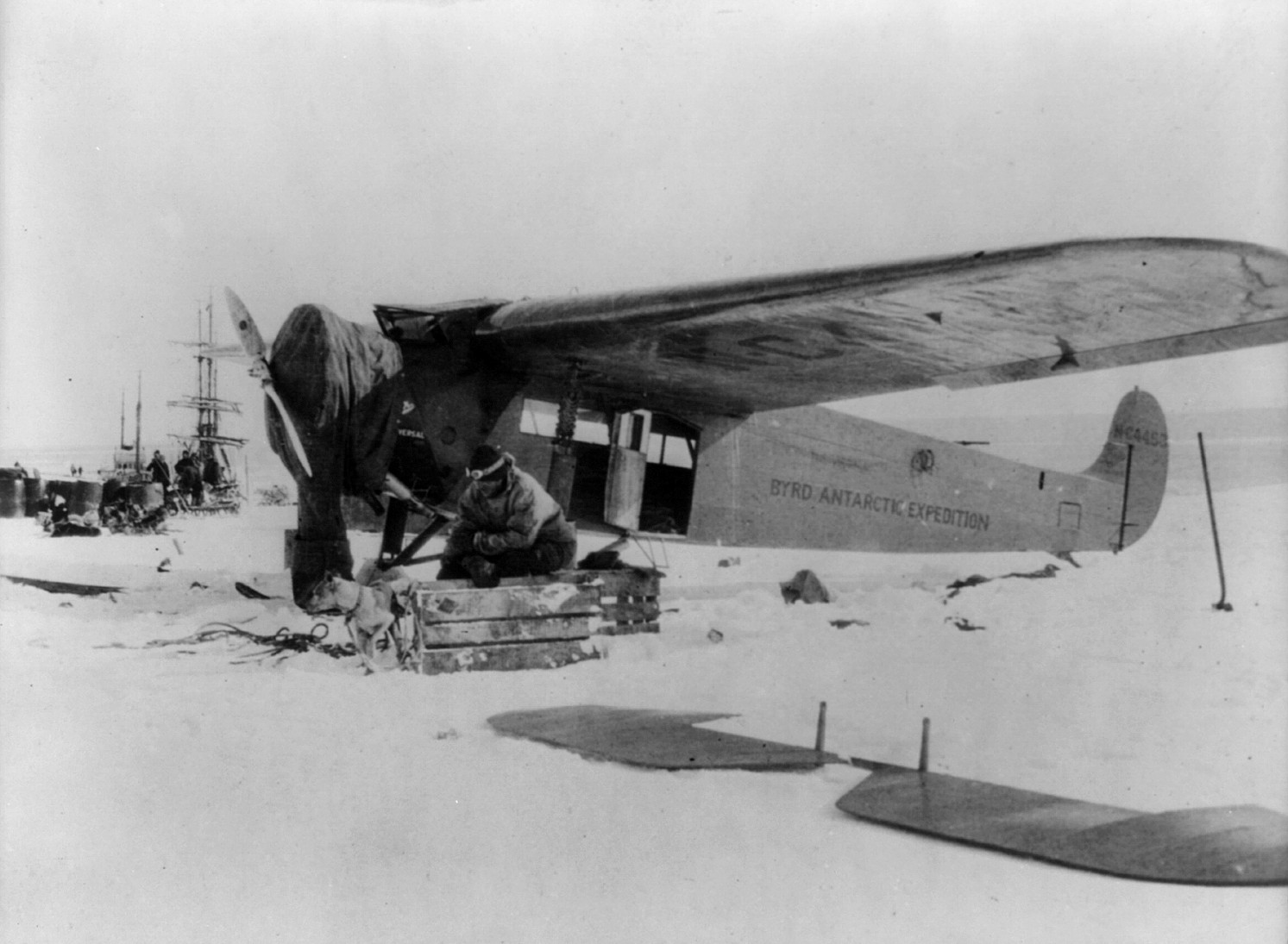 A Fokker "Super Universal" aircraft (NC 4453, "The Virginia") of the Byrd Antarctic Expedition at the "Little America" base camp. Pioneer Bernt Balchen is kneeling in front of the plane with a sled dog. On 7 March 1929 Bernt Balchen, Lt. Harold June, and geologist Laurence McKinley Gould landed with this aircraft near the Rockefeller Mountains to conduct a geological survey. However, during the evening of 14 March a huge gust of wind ripped the plane from its moorings and blew it for 700 m before it crashed on the ice. The crew was rescued a few days later.